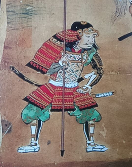 Sakuma Nobimori